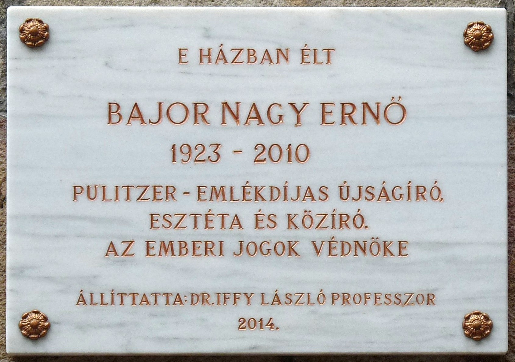 Commemorative plaque to Mr. Ernő Bajor Nagy (1923-2010) Hungarian journalist, esthete and publicist affixed to the wall of his former home. (Budapest, District XIII, Pozsonyi Street Nr 25)